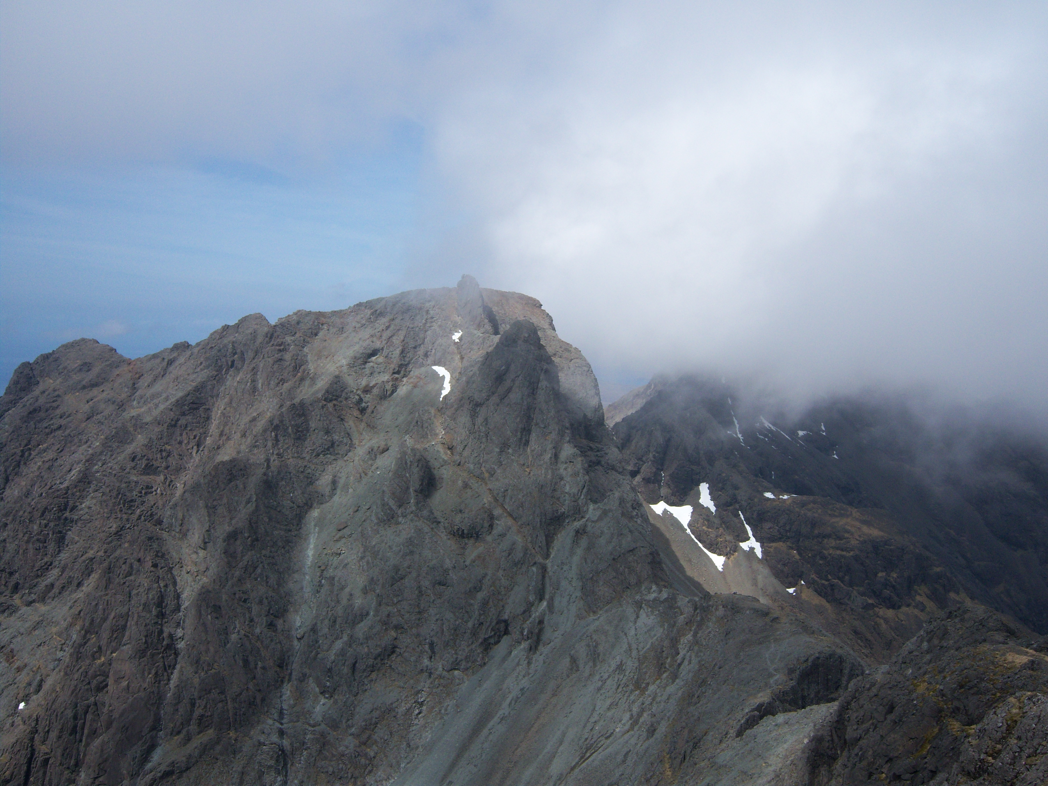 Th Inaccessible Pinnacle of Sgurr Dear on Skye